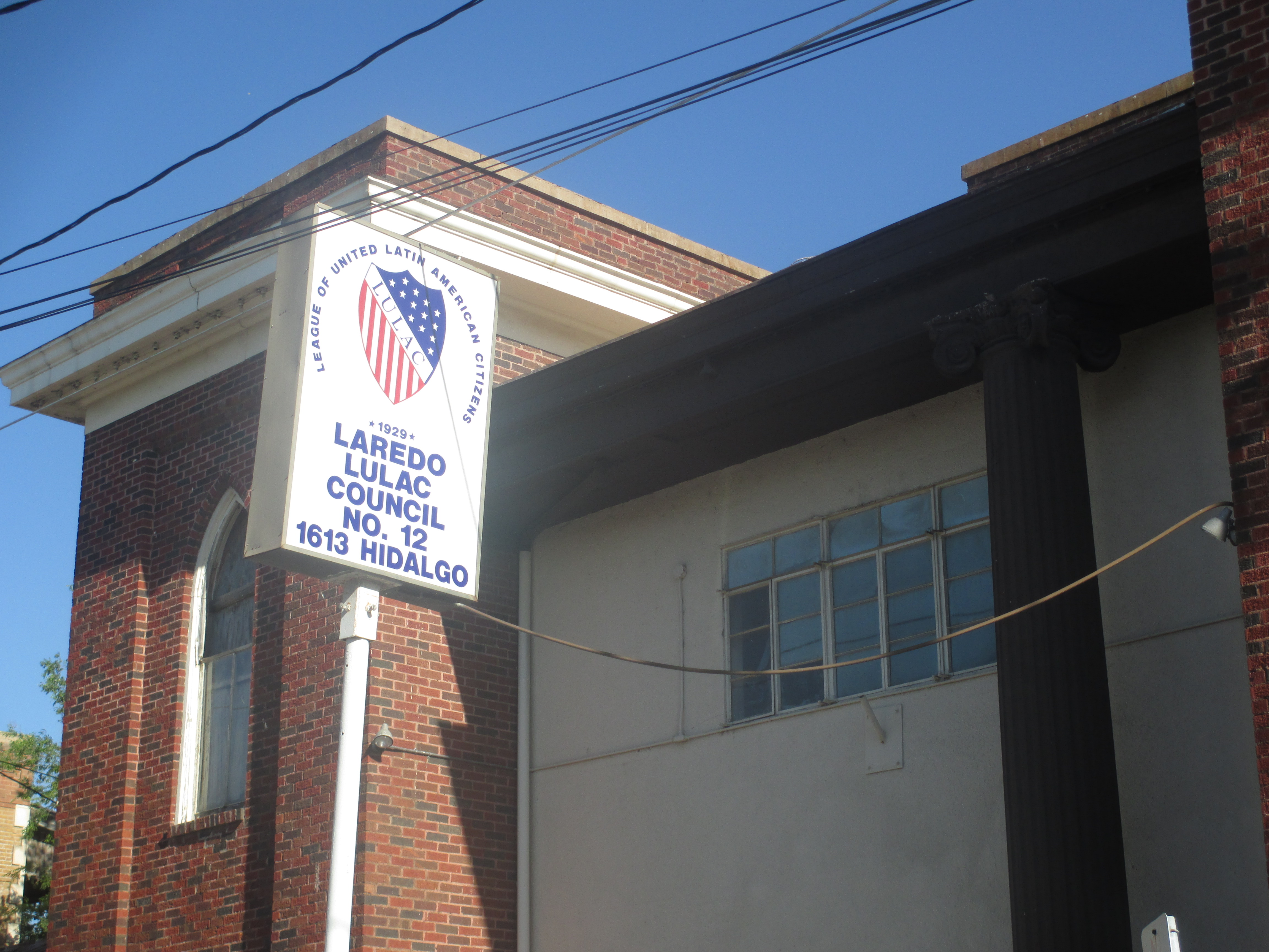 I took photo of Laredo, TX, LULAC building, with Canon camera.